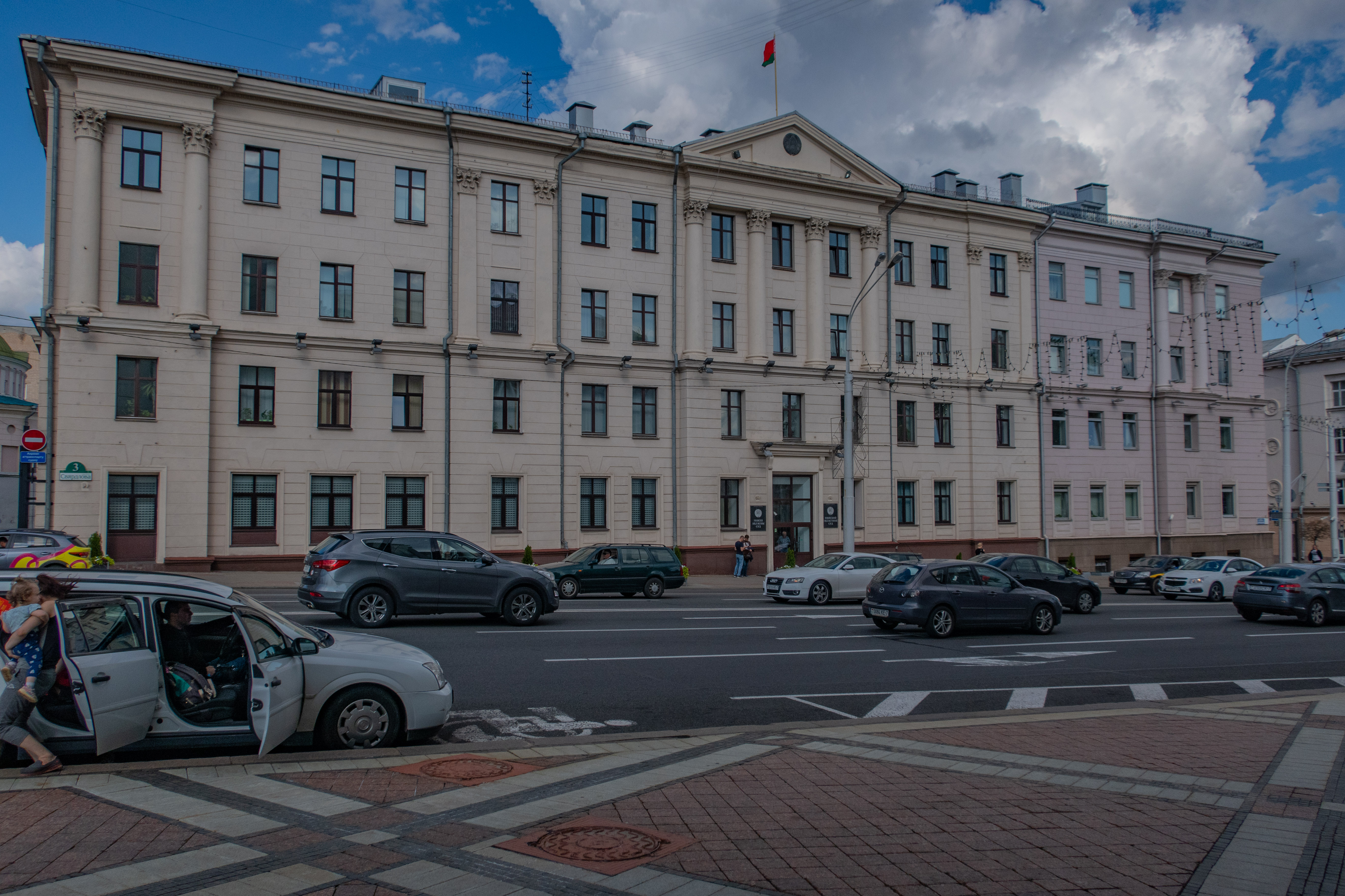 Sviardlova street — Minsk regional court. Minsk, Belarus